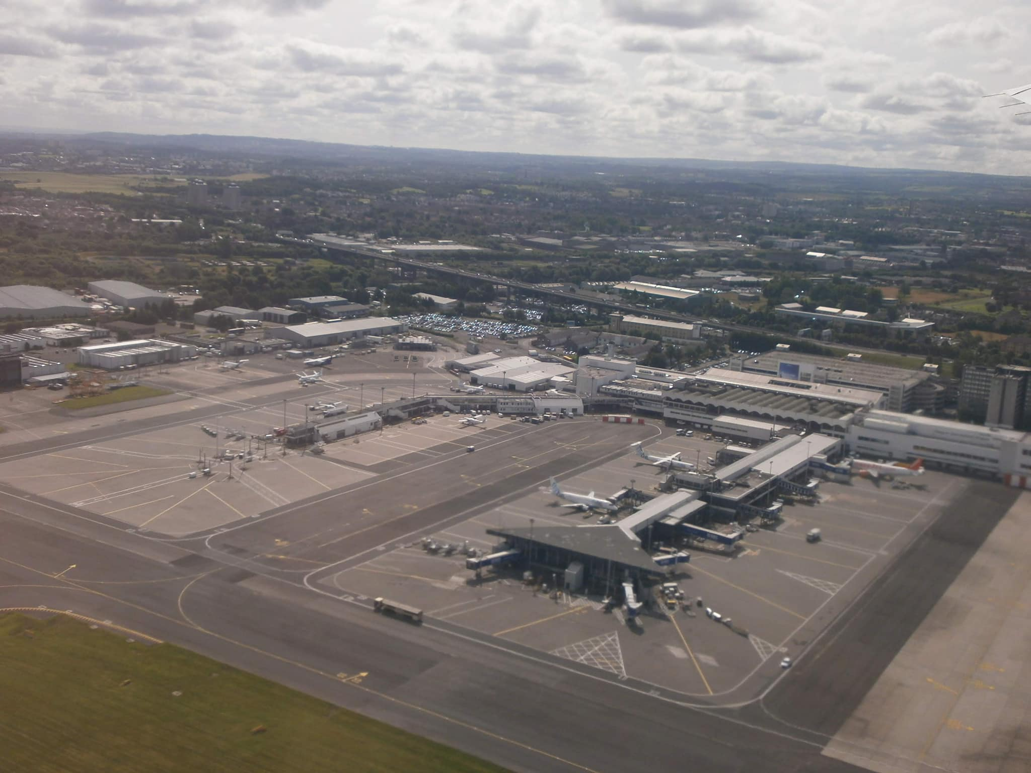 pic taken during take off